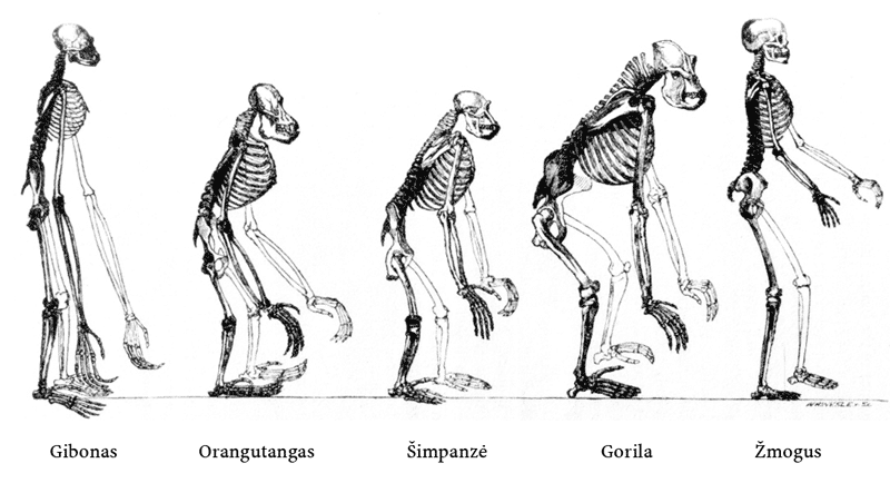 Picture lithuanisation. Frontispiece to Huxley's Evidence as to Man's Place in Nature (1863), comparing the skeletons of various apes to that of man.